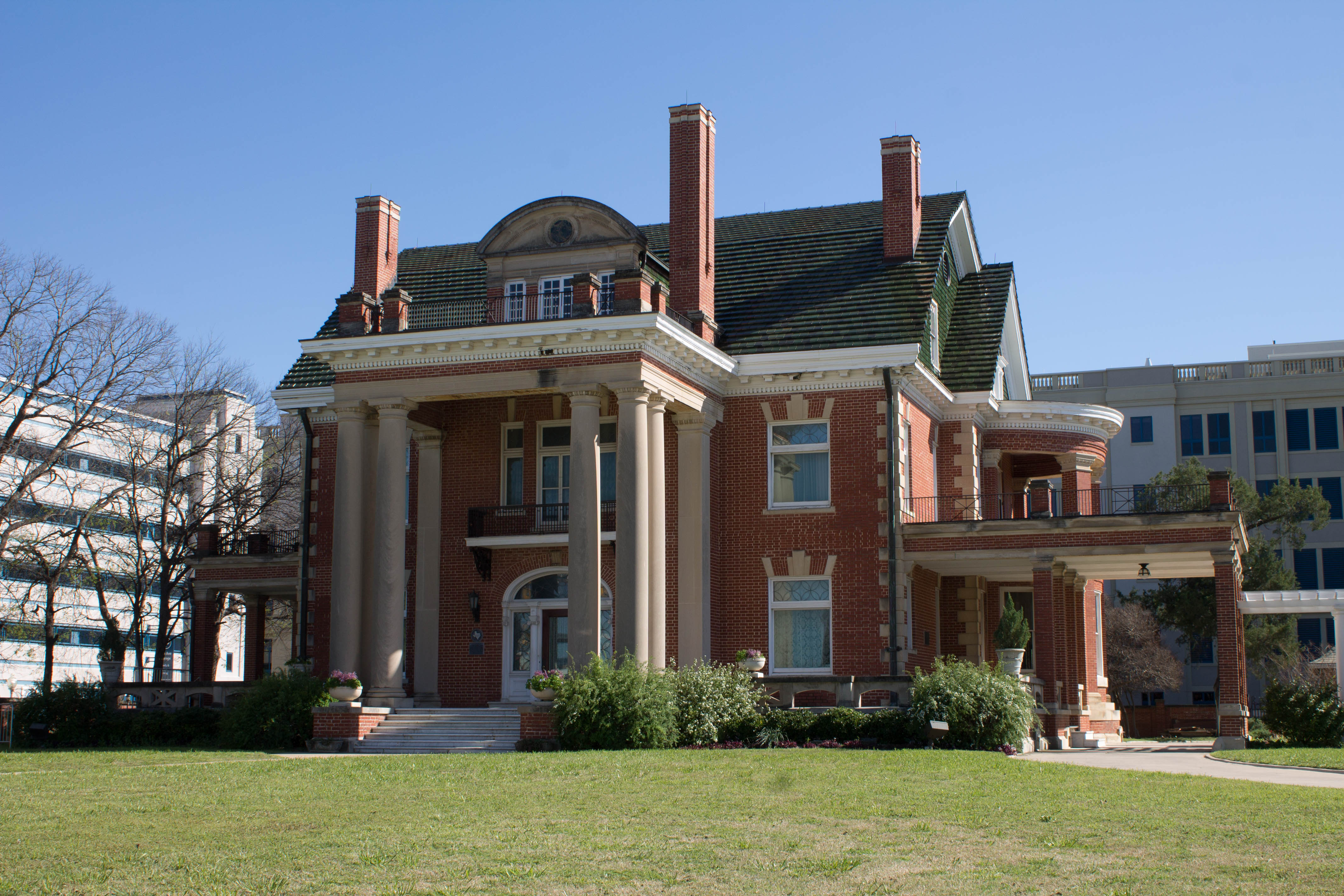 Wharton-Scott House1